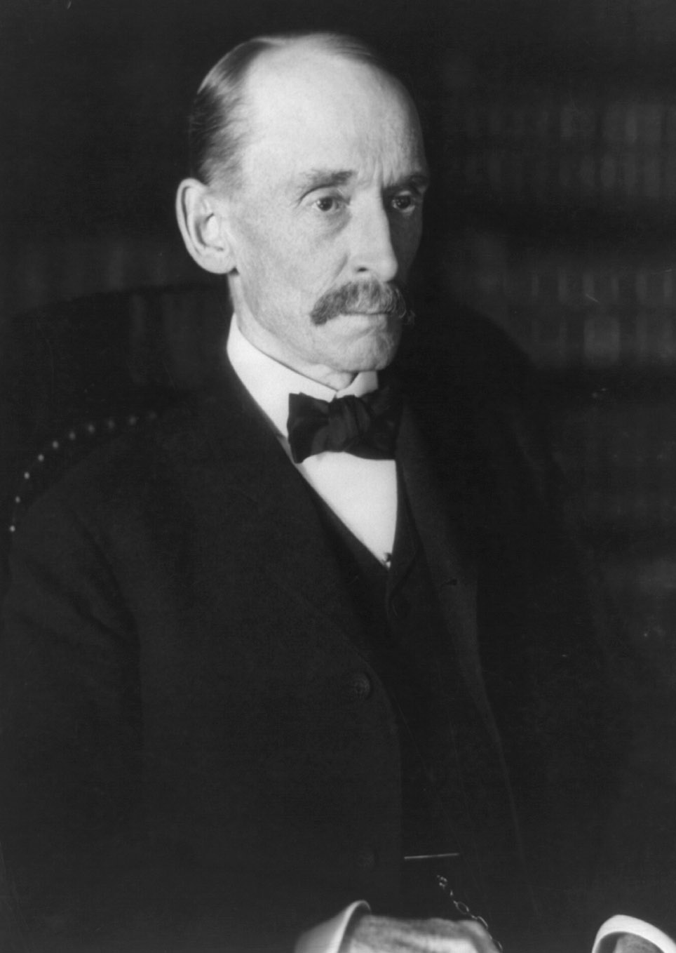 William R. Day, Associate Justice of the Supreme Court.